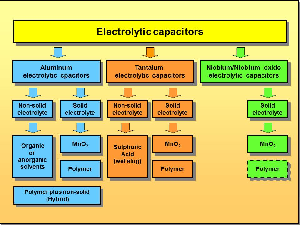 Aluminum electrolytic capacitors family tree